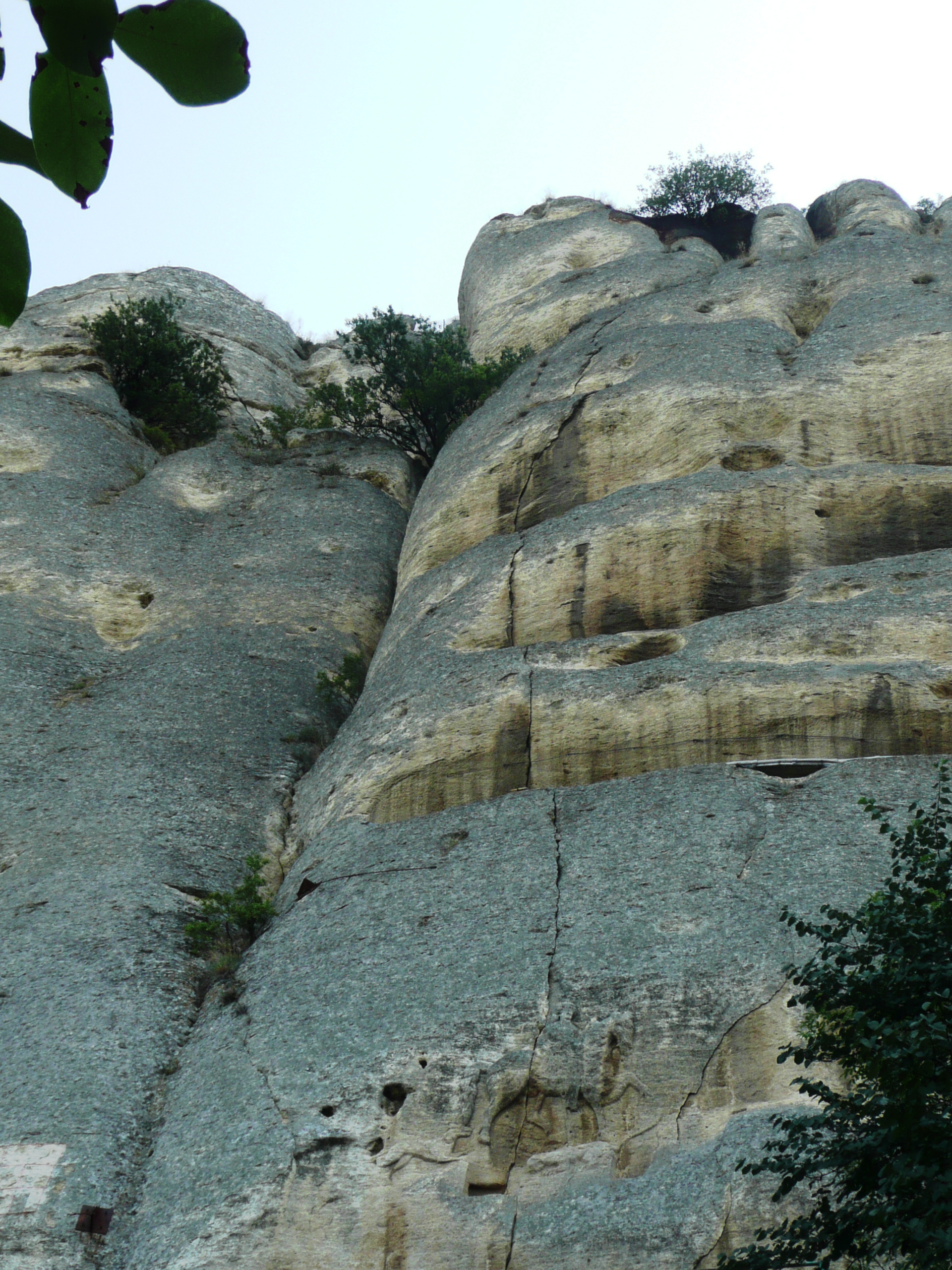 the Madara horseman in NE Bulgaria (8th - 9th Cent. A.D.)